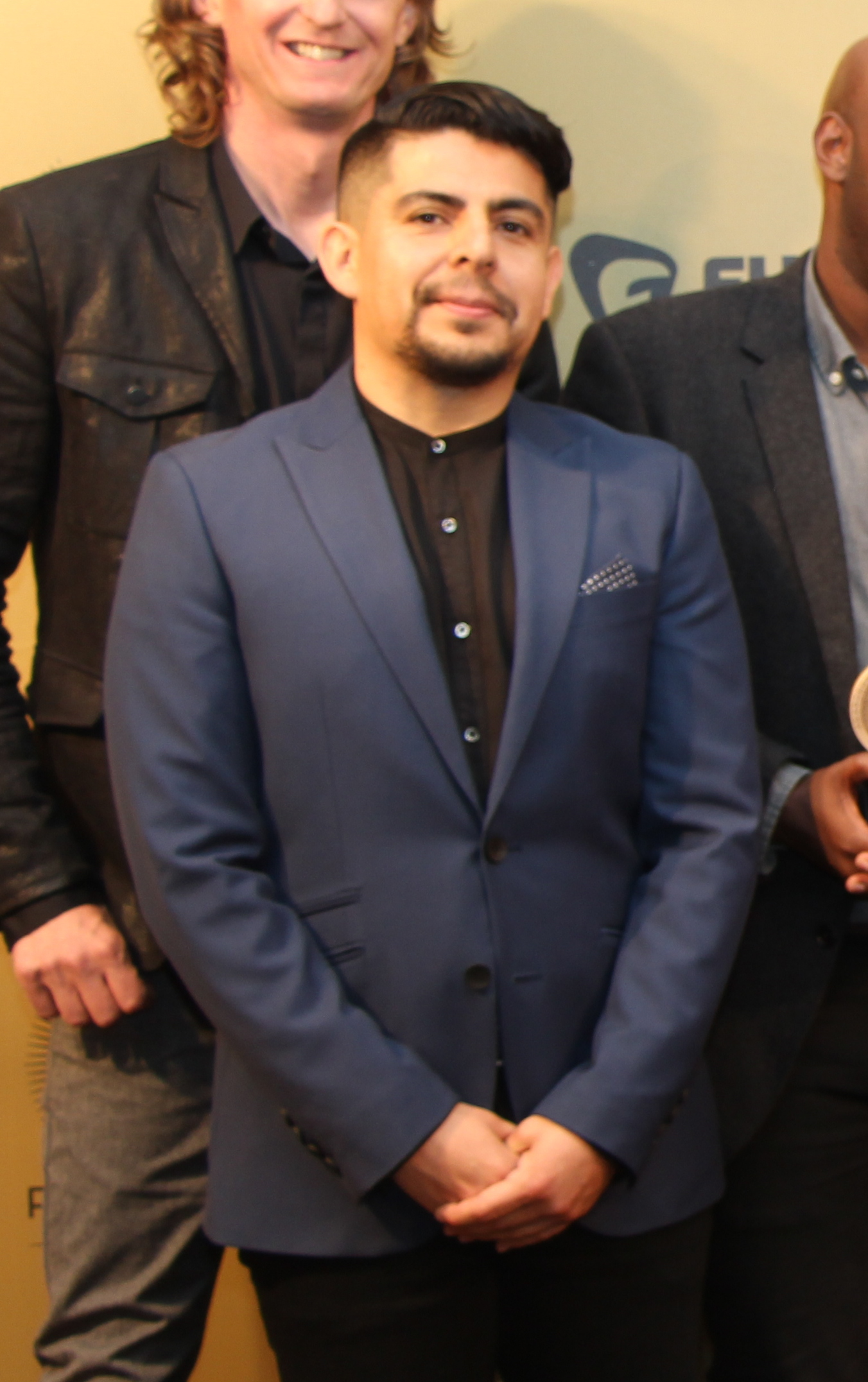 NEW YORK, NY - MAY 20: Scot McFadyen, Rodrigo Bascunan, Shadrach Kabango, Sam Dunn, Russell Peters, and Darby Wheeler from Hip Hop Evolution pose with an award during The 76th Annual Peabody Awards Ceremony at Cipriani, Wall Street on May 20, 2017 in New York City.